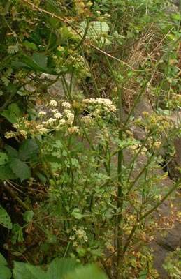 Apium graveolens var. graveolens Author : Augustin Roche Source : [1]